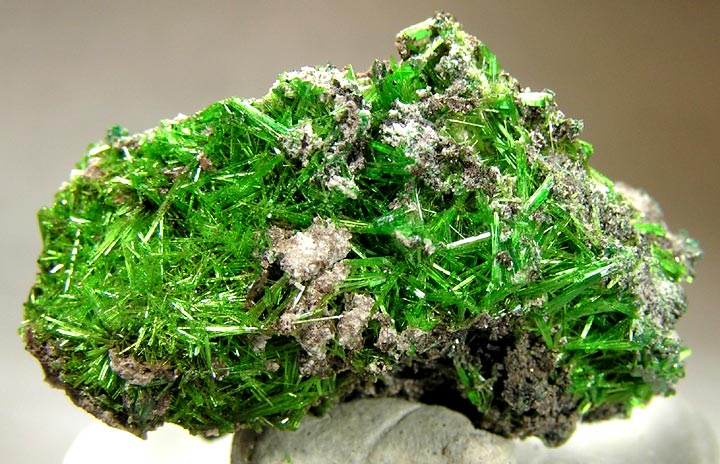 Cuprosklodowskite Locality: Musonoi Mine, Kolwezi, Western area, Katanga Copper Crescent, Katanga (Shaba), Democratic Republic of Congo (Zaïre) (Locality at ) Superb bright green acicular crystals of this very rare radioactive mineral! 3.6 x 2.7 x 2.2 cm